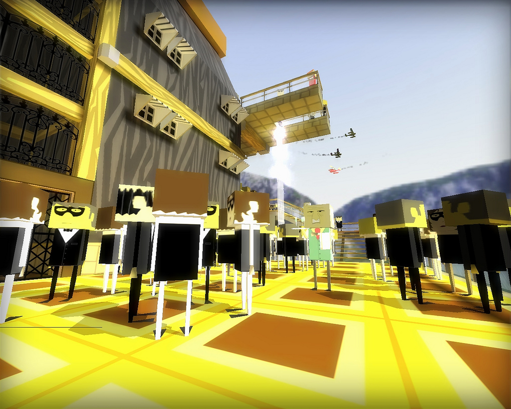 A screenshot of Gravity Bone, taken by the developer, Brendon Chung.